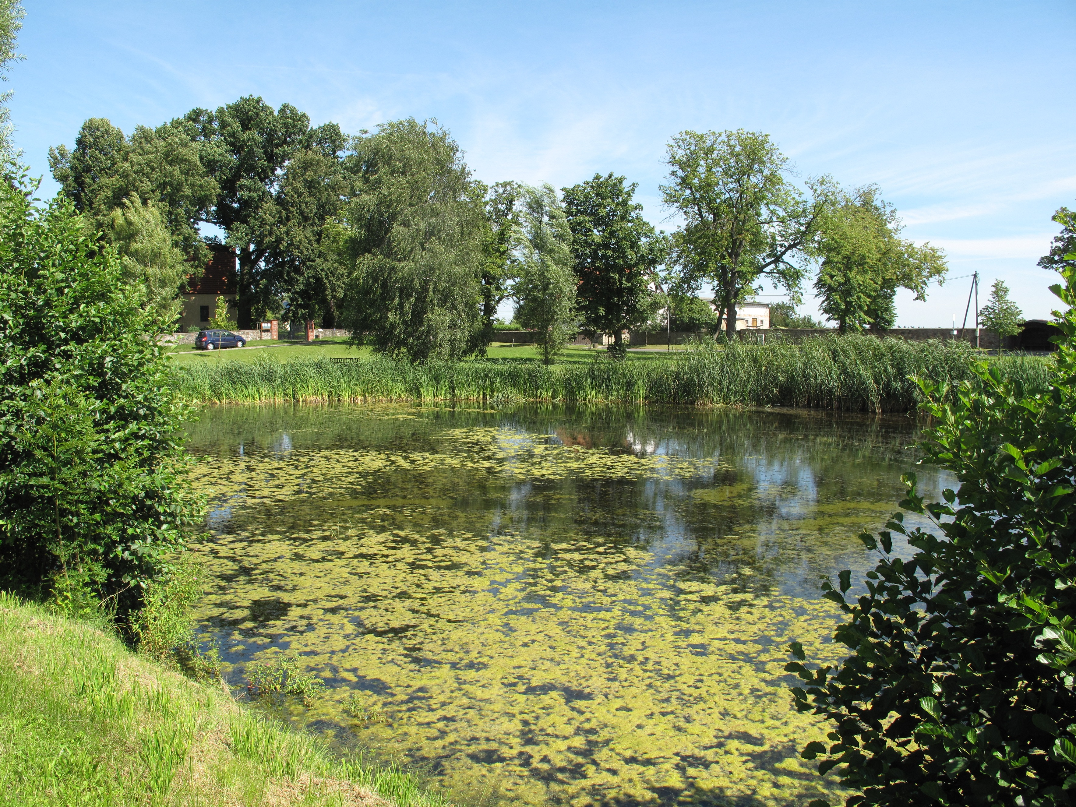 Historical village green and pond in Pritzhagen. Pritzhagen is a village of the municipality Oberbarnim in the District Märkisch-Oderland, Brandenburg, Germany. It is situated in the Märkische Schweiz Nature Park. The village green with its pond and the perimeter fieldstone-walls was extensively renovated in 2004.